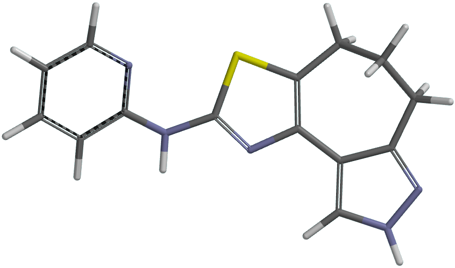 The compound is a positive allosteric modulator activating the metabotropic glutamate receptor 4 and was synthesized by Sang-Phyo Hong et al. in 2011. In the article, the compound is compound 22A. The file was made with Spartan '08, and the equilibrium geometry was calculated with the semi-empirical model with PM3 as the method. As a reference, the digital object identifier is